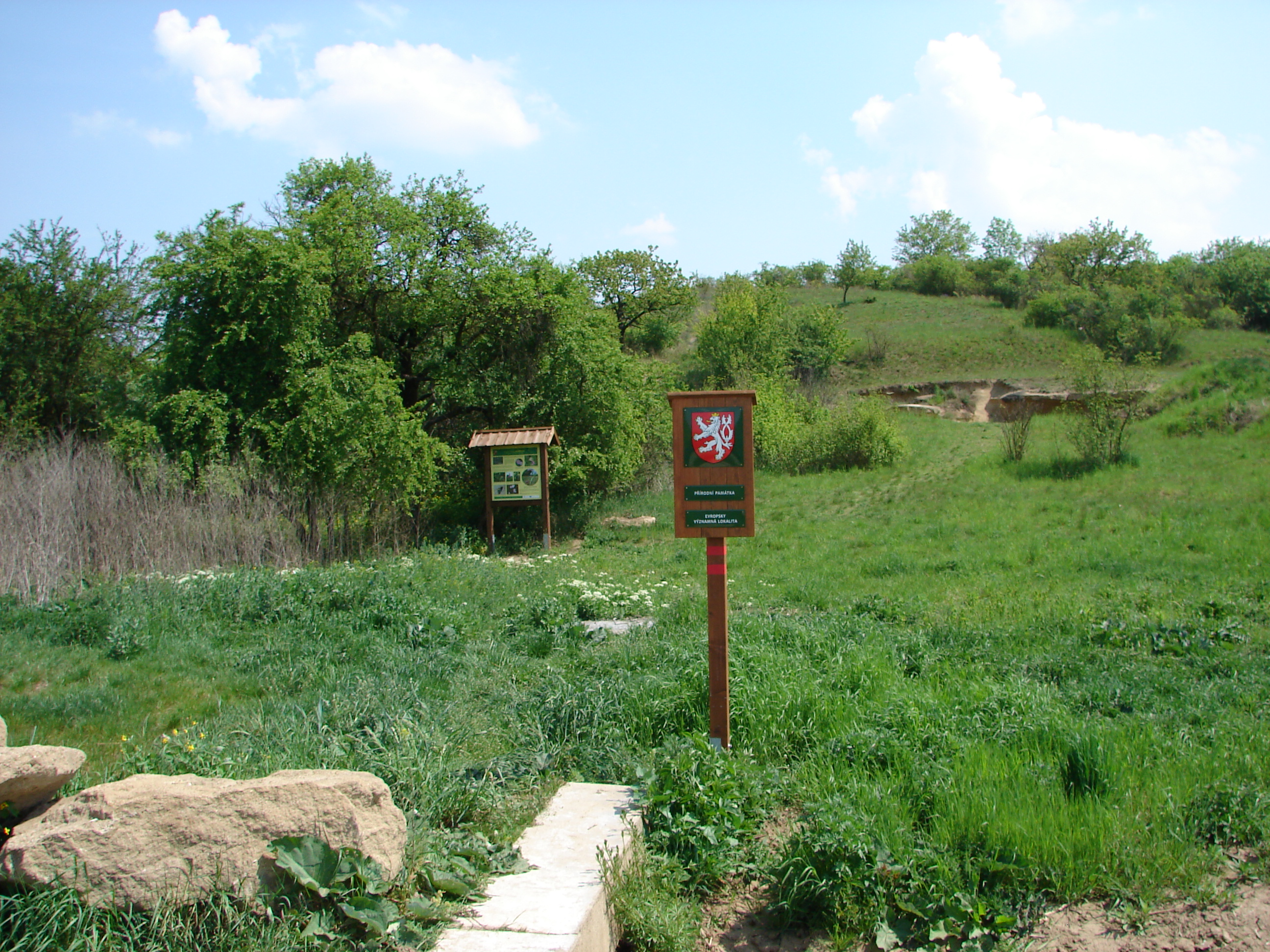 Natural monument Bezourek in Brno-venkov District, Czech republic.